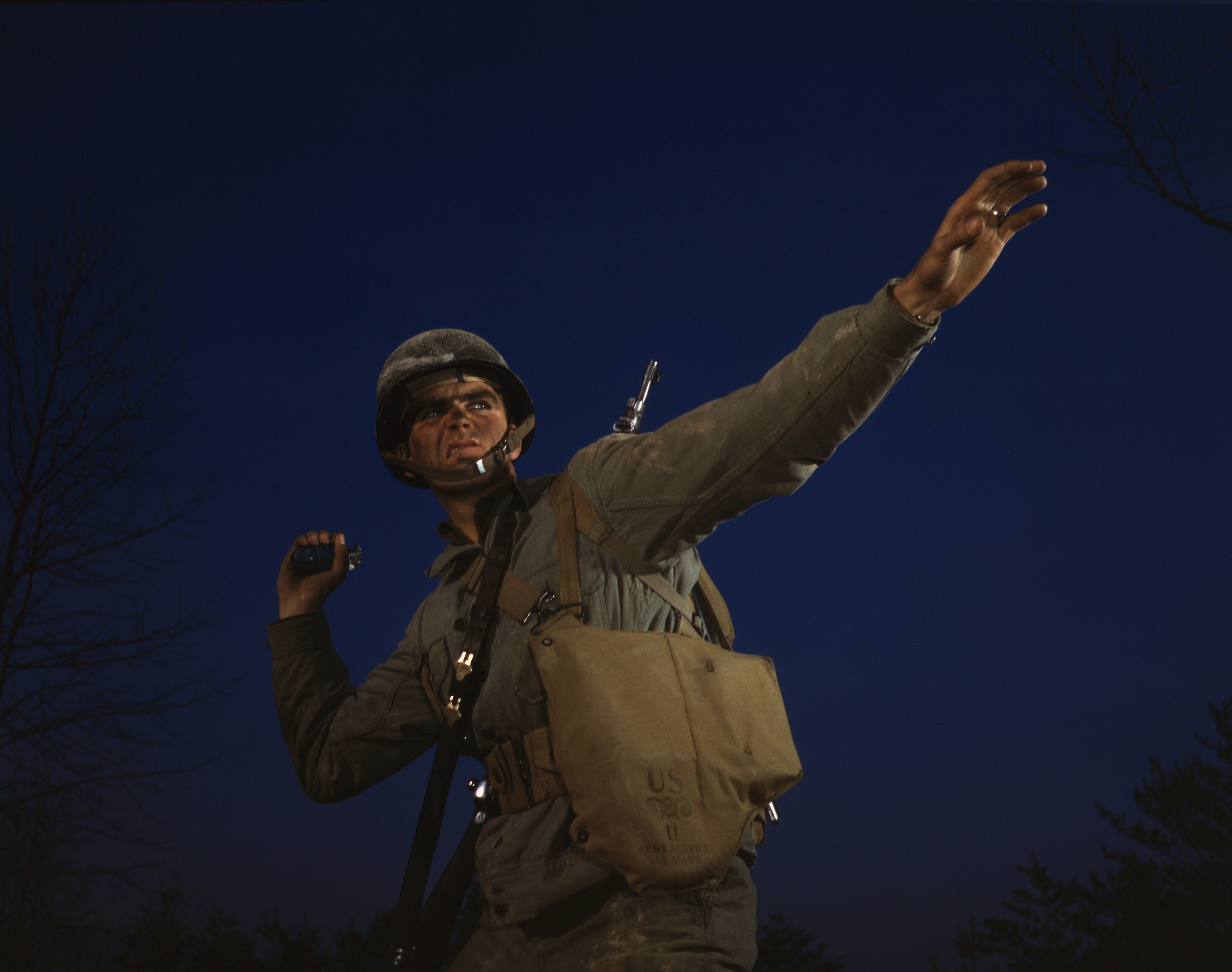 Original caption: An American pineapple, of the kind the Axis finds hard to digest, is ready to leave the hand of an infantryman in training at Fort Belvoir, Va. American soldiers make good grenade throwers